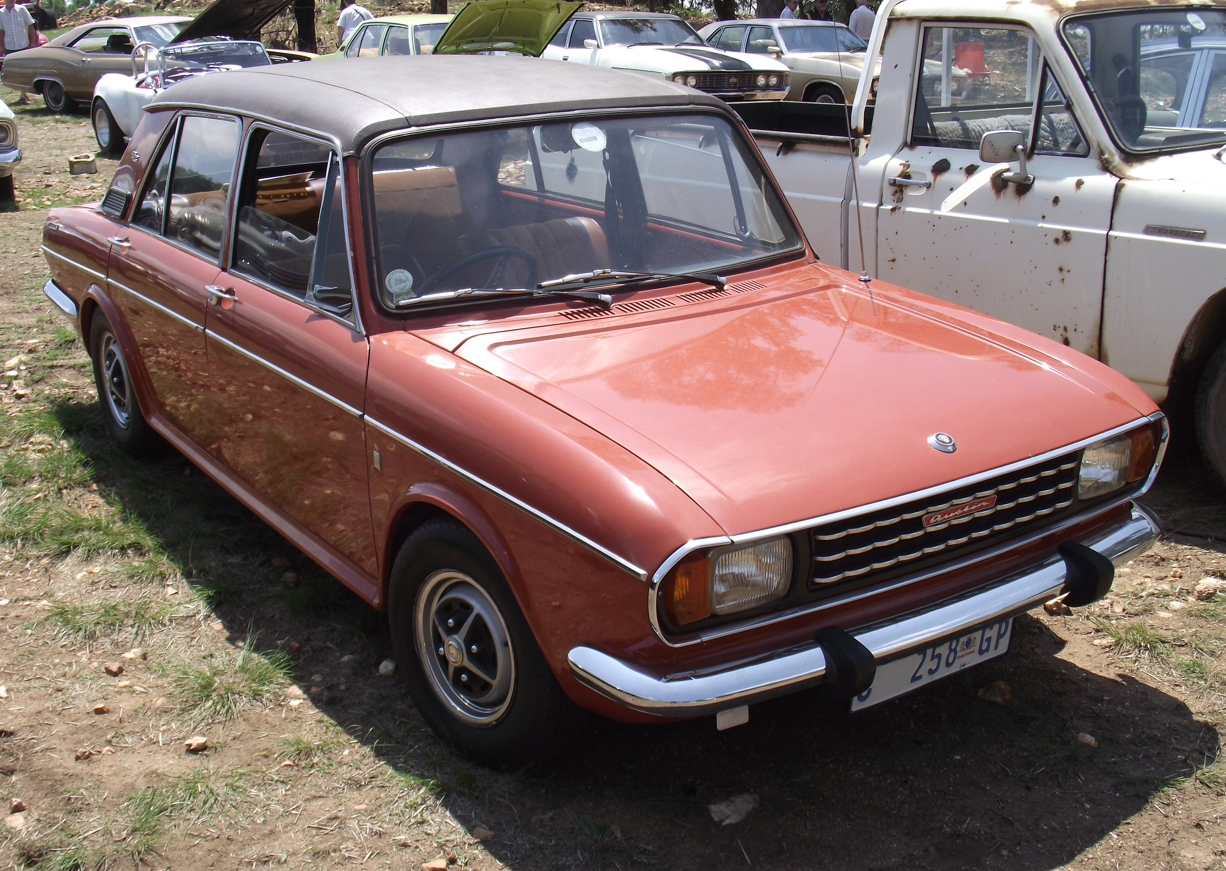 1970's Austin Apache (South African BMC ADO16)